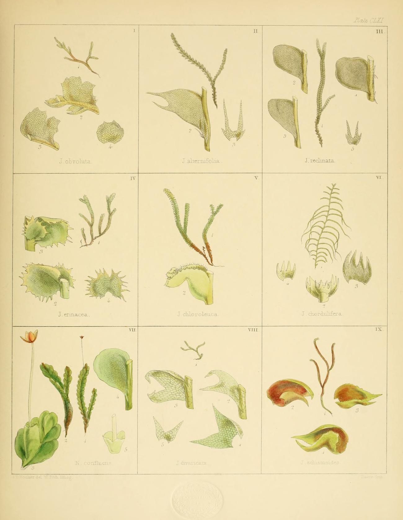 jpg of Plate CLXI of Hooker's Flora Antarctica. Made up of nine smaller images of various species of Hepaticae. Fig I: Jungermannia obvoluta; Fig II: J. alternifolia; Fig III: J. reclinata; Fig IV: J. erinacea; Fig V: J. chloroleuca; Fig VI: J. chordulifera; Fig VII: N. (J.) confluens; Fig VIII: J. divaricata; Fig IX: J. schismoides